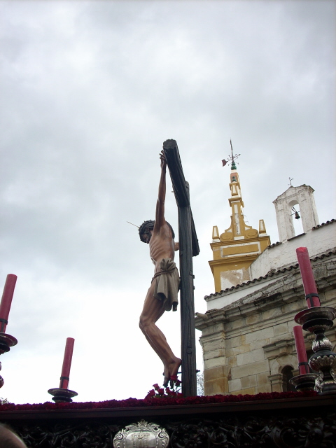 Cristo de las Aguas, Hermandad de Las Tres Horas